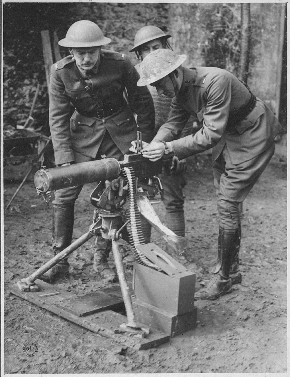 Lt. Val Browning with .30 Caliber Browning Machine Gun